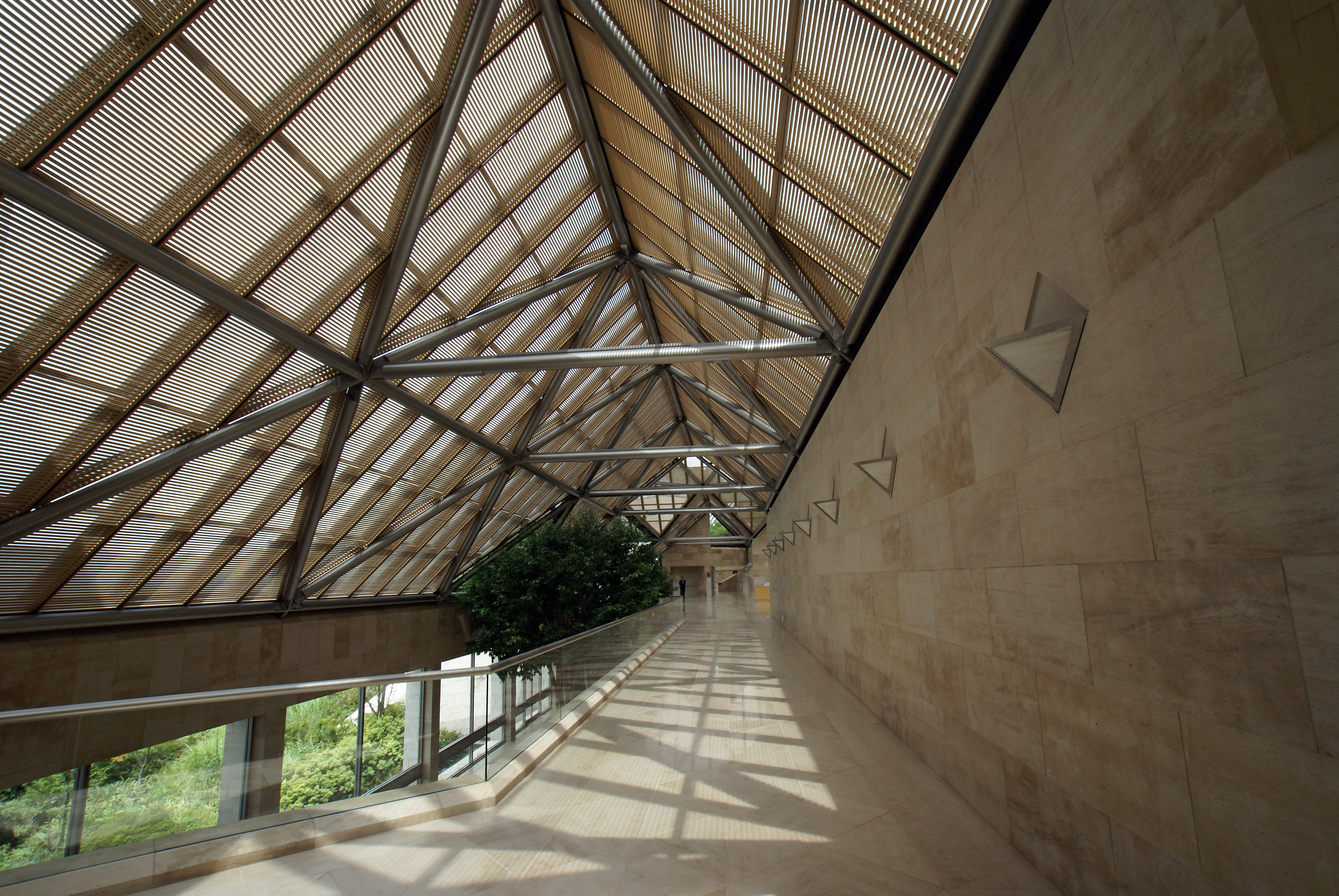 Miho Museum in Koka, Shiga prefecture, Japan